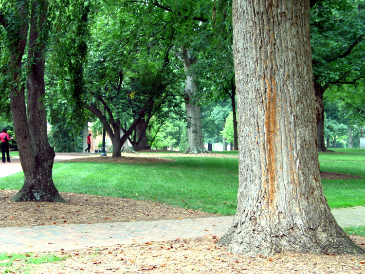 Wooded McCorkle Place on the campus of University of North Carolina at Chapel Hill. With trunk of a landmark Davie Poplar on right.